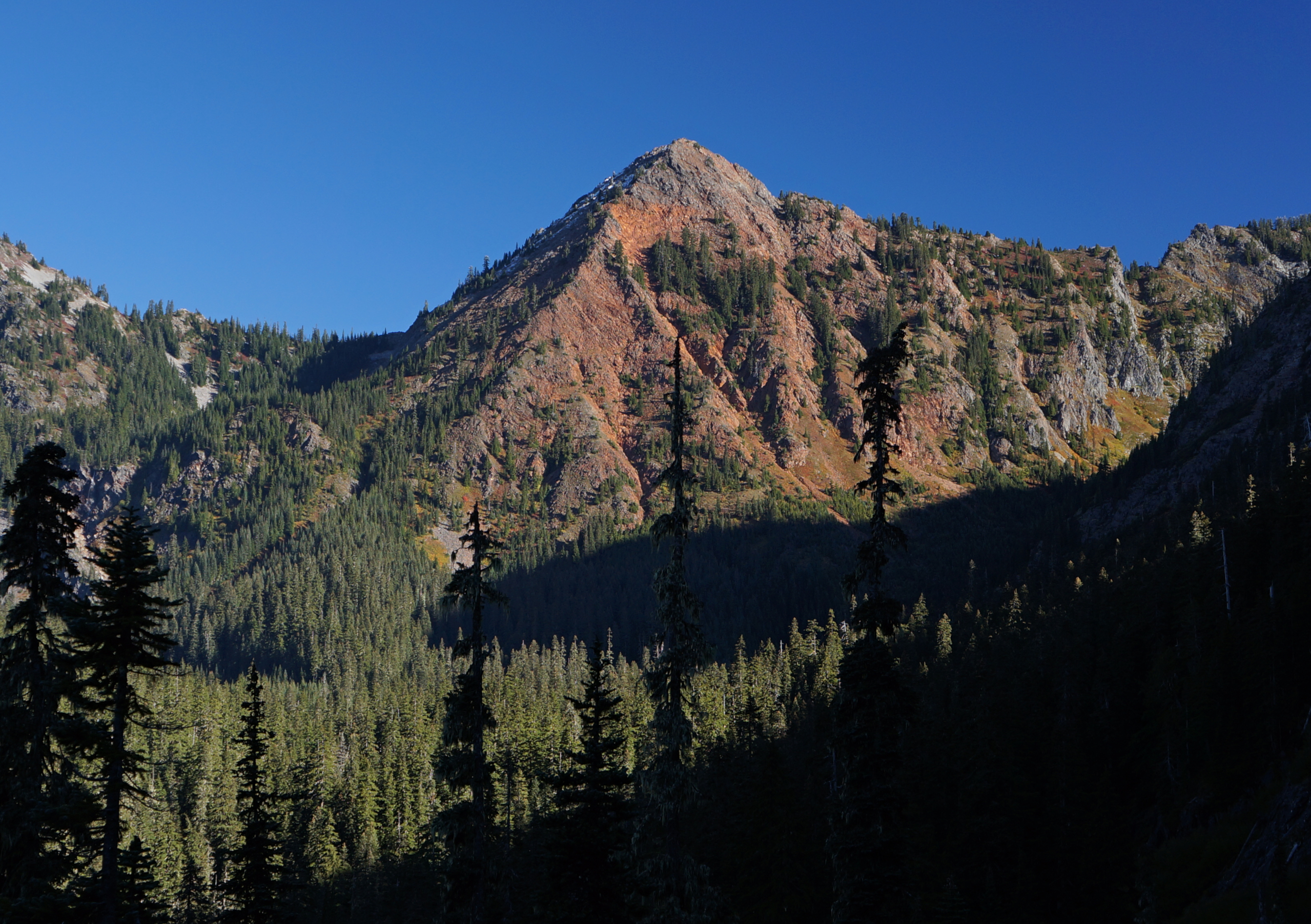 Red Mountain, Commonwealth Basin, King County WA